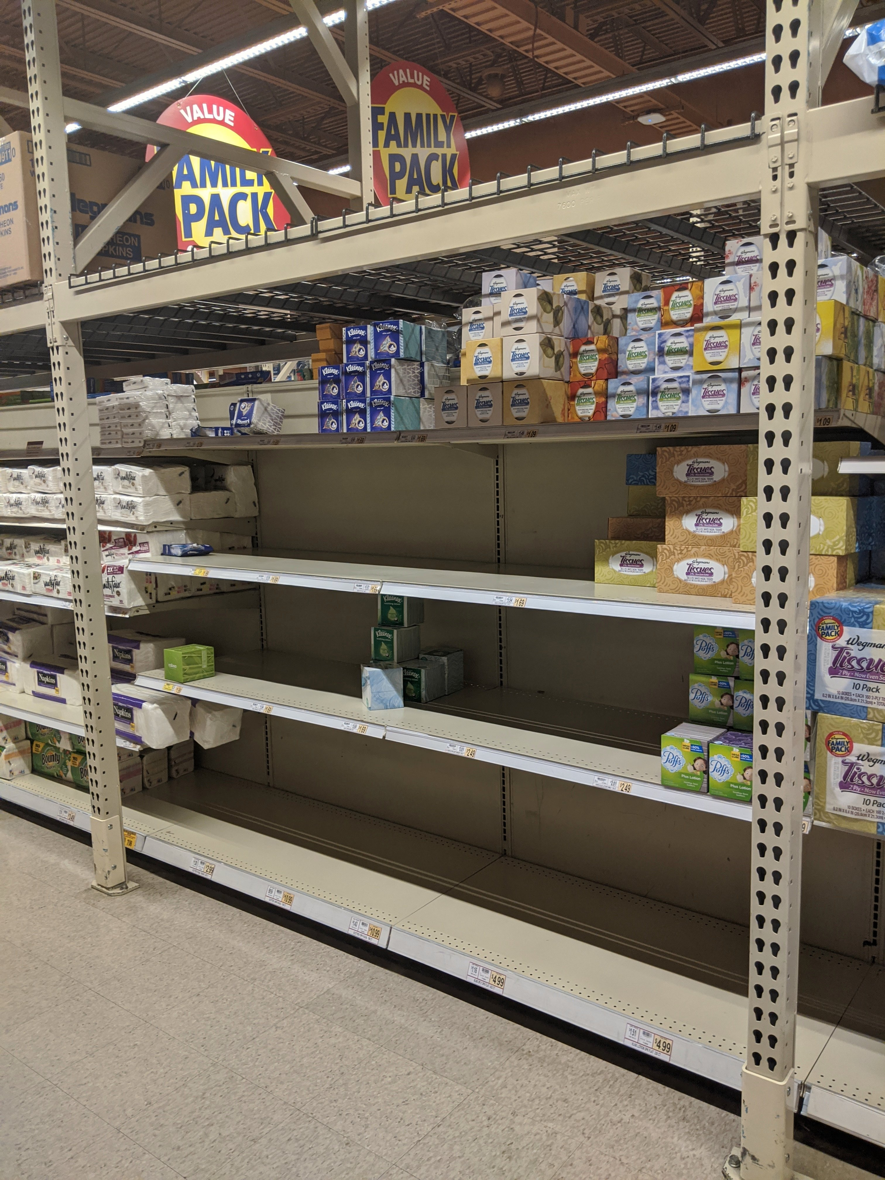 Empty shelves during coronavirus outbreak in the United States